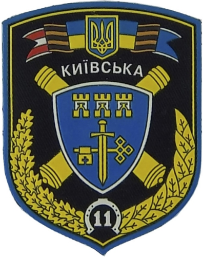 Shoulder sleeve insignia of the Ukrainian Army 11th Artillery Brigade